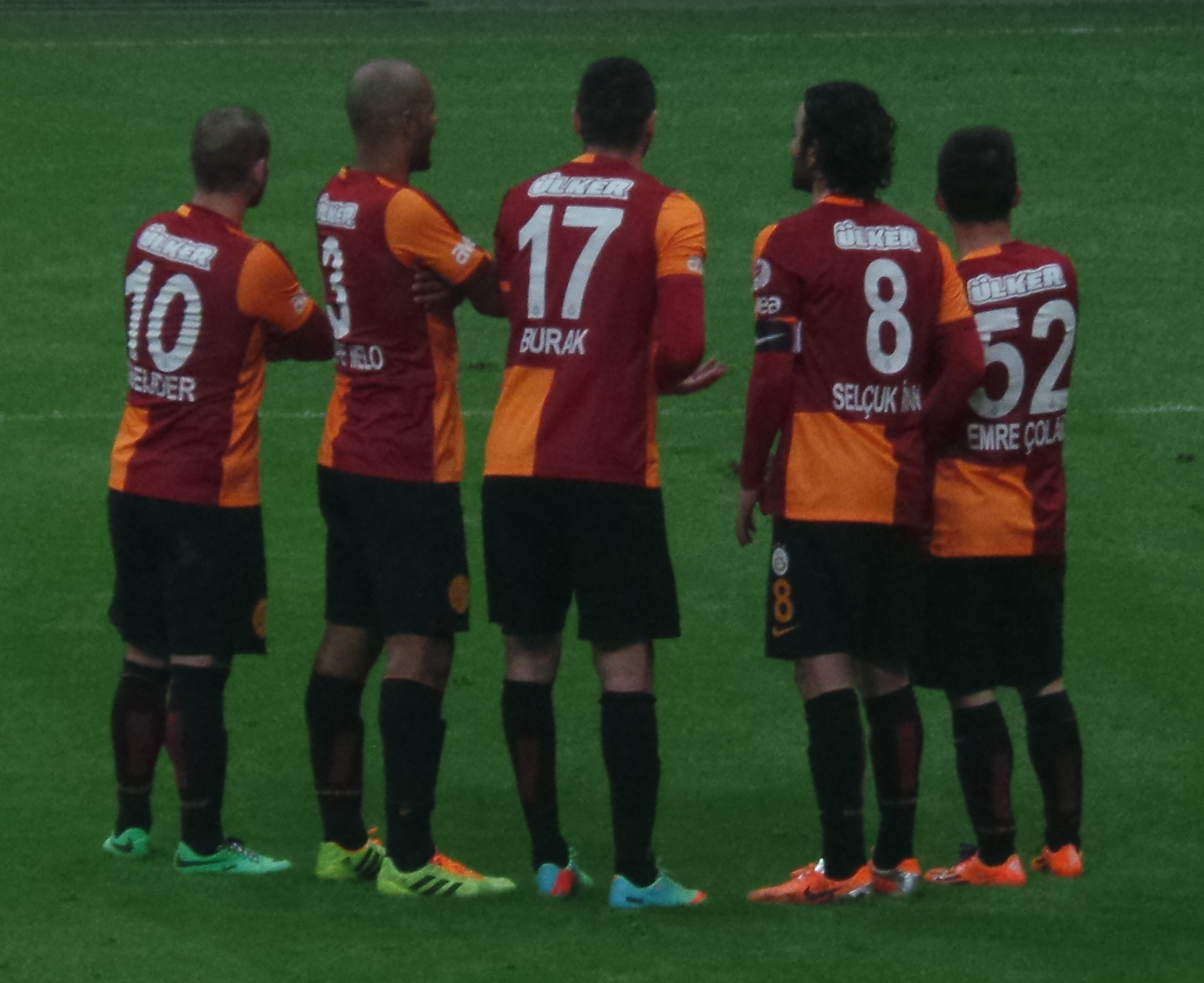 Sneijder, Melo, Burak Yilmaz, Selçuk İnan and Emre Çolak celebrating Selçuk's penalty goal which he scored against Tokatspor at cup match.